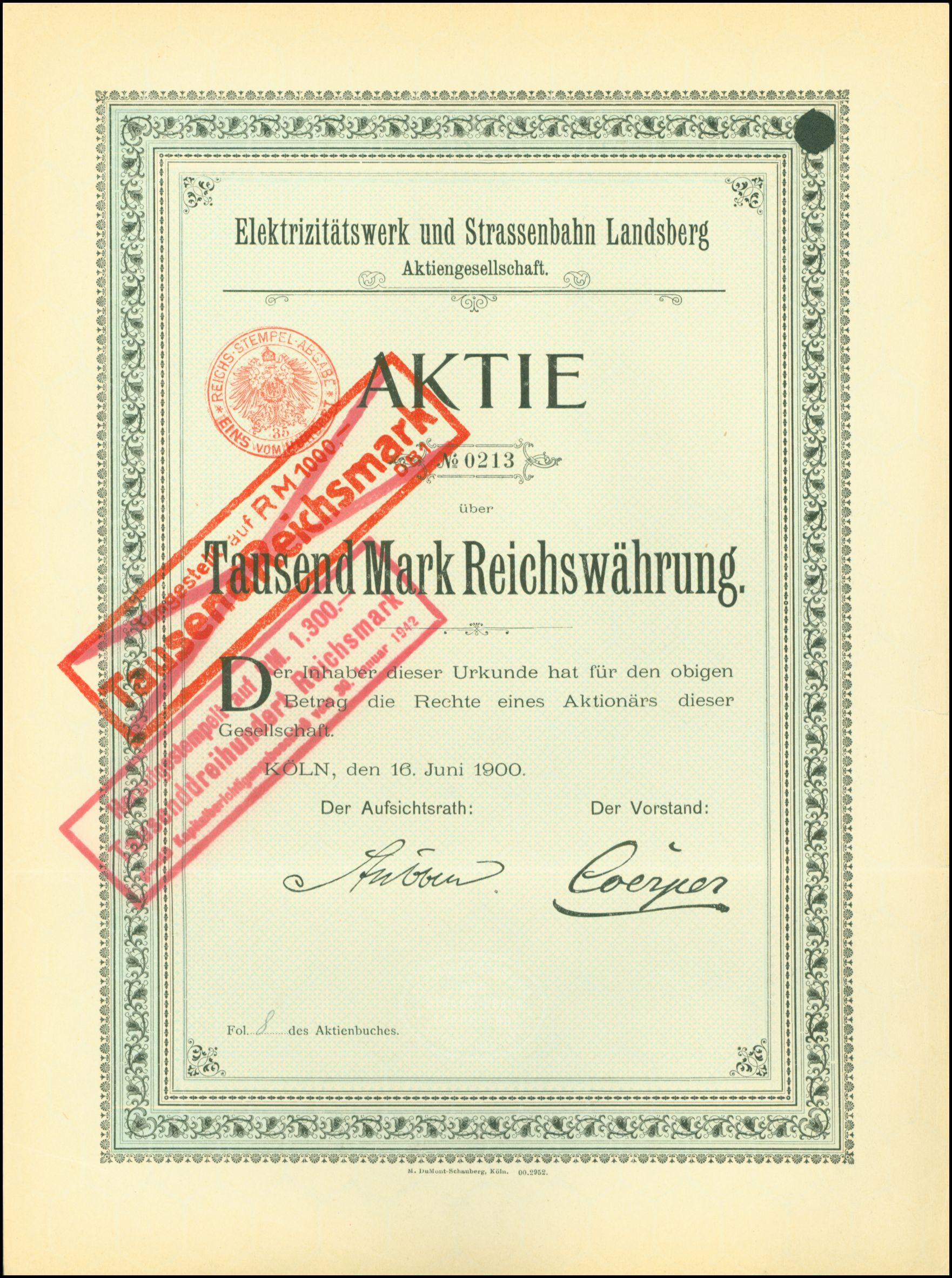 Share of the Elektrizitätswerk und Strassenbahn Landsberg AG, issued 16. June 1900